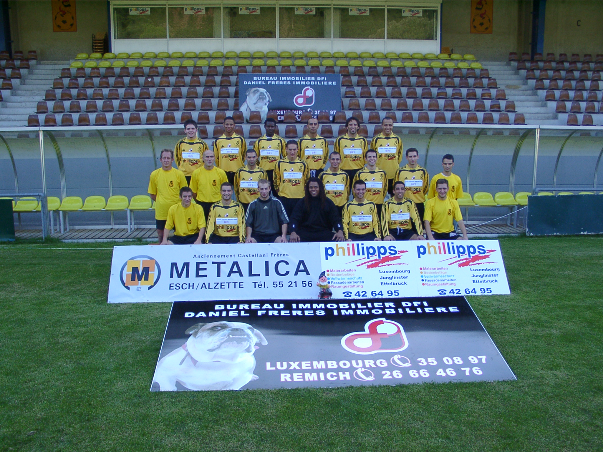 2005/2006 Squad of Avenir Beggen/Luxembourg